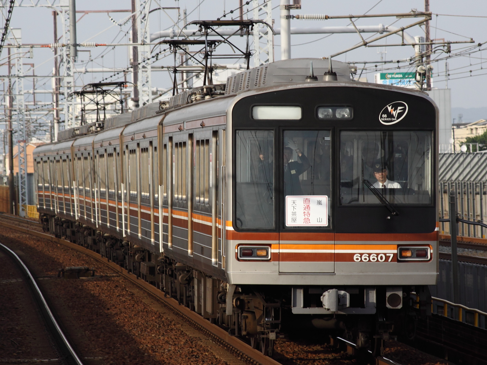 Osaka Subway 66 Minase Station